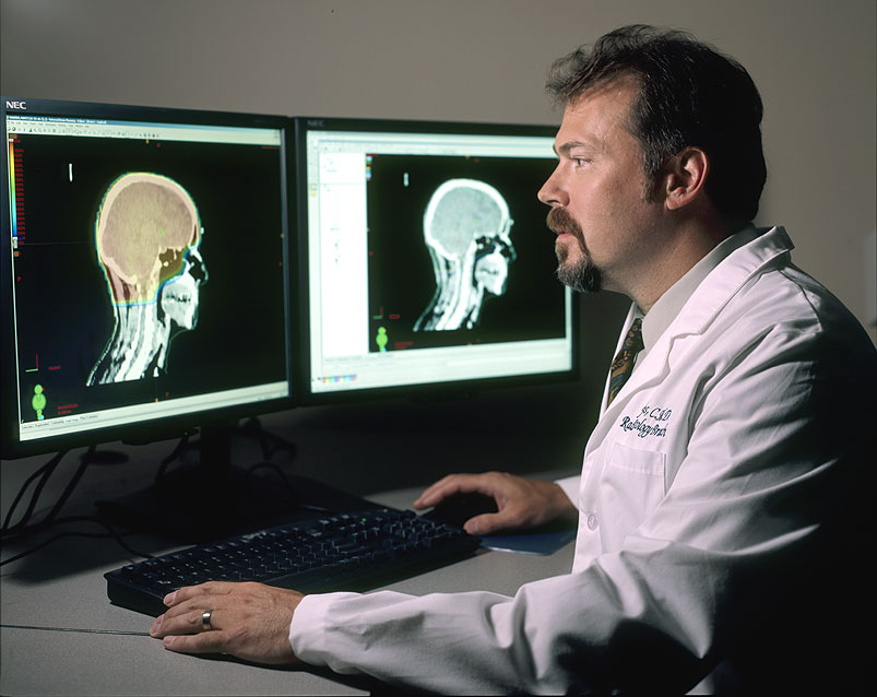 Title Doctor Review Brain Images Description A Caucasian male doctor reviews brain images in the dosimetry planning of radiation therapy for brain tumors. Topics/Categories People -- Health Professional Science and Technology -- Computers Test or Procedure -- Imaging Procedures Treatment -- Radiation Therapy Type Color, Photo Source National Cancer Institute